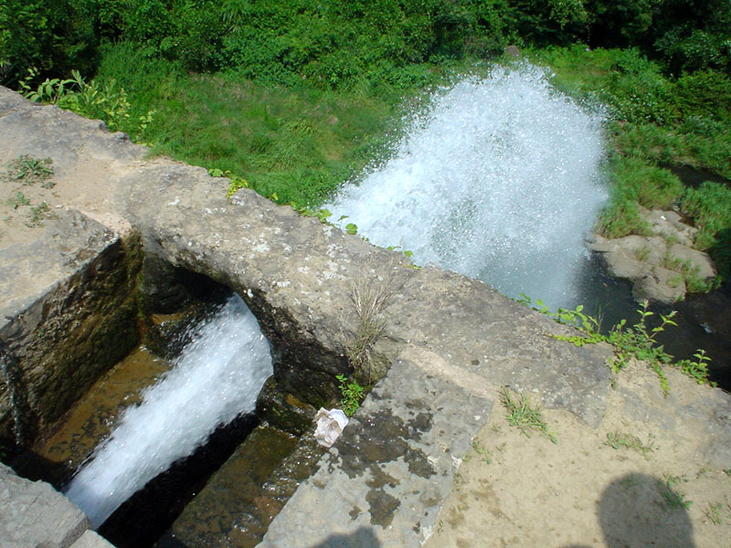 The Tsūjun Bridge is an aqueduct in Yamato, Kumamoto Prefecure, Japan.